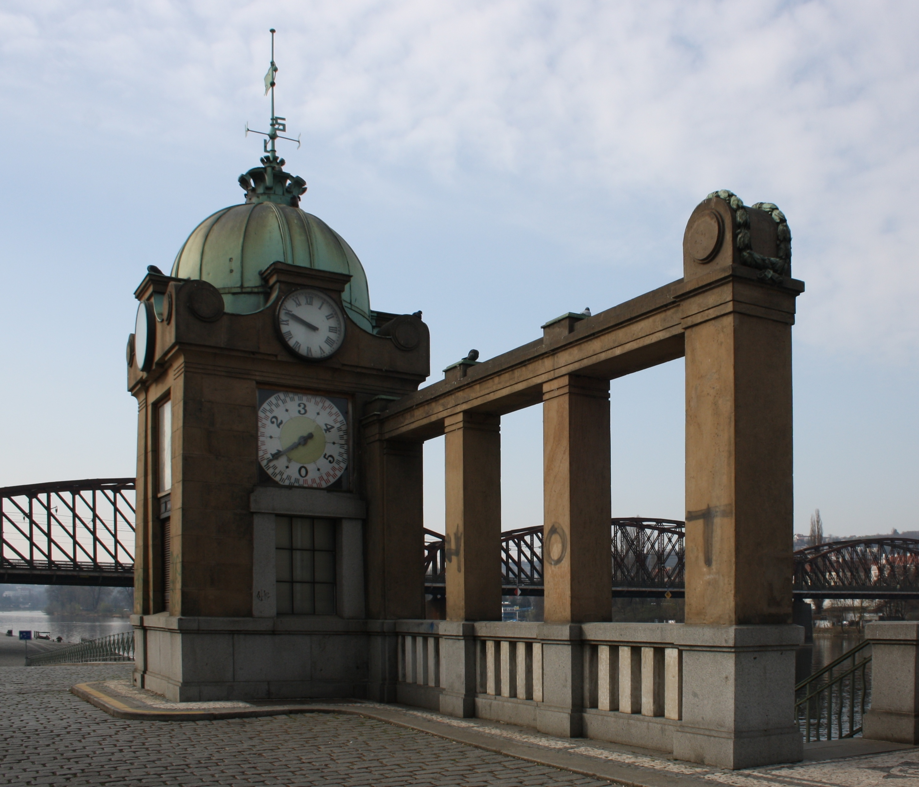 Waterfront of Vltava, Prague, Czech Republic This photograph was taken with a DSLR from WMCZ's Camera grant.